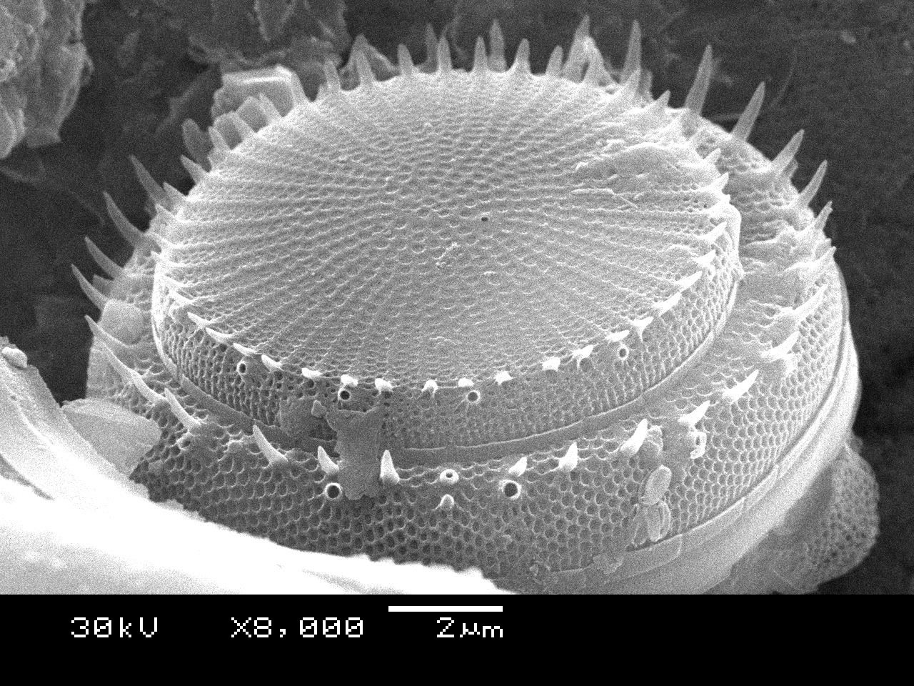 "Diatoms cake". Typical diatom species - Stephanodiscus hantzschii Grunow in Cleve & Grunow (Bacillariophyta).Foto was created in M.G. Kholodny Institute of Botany